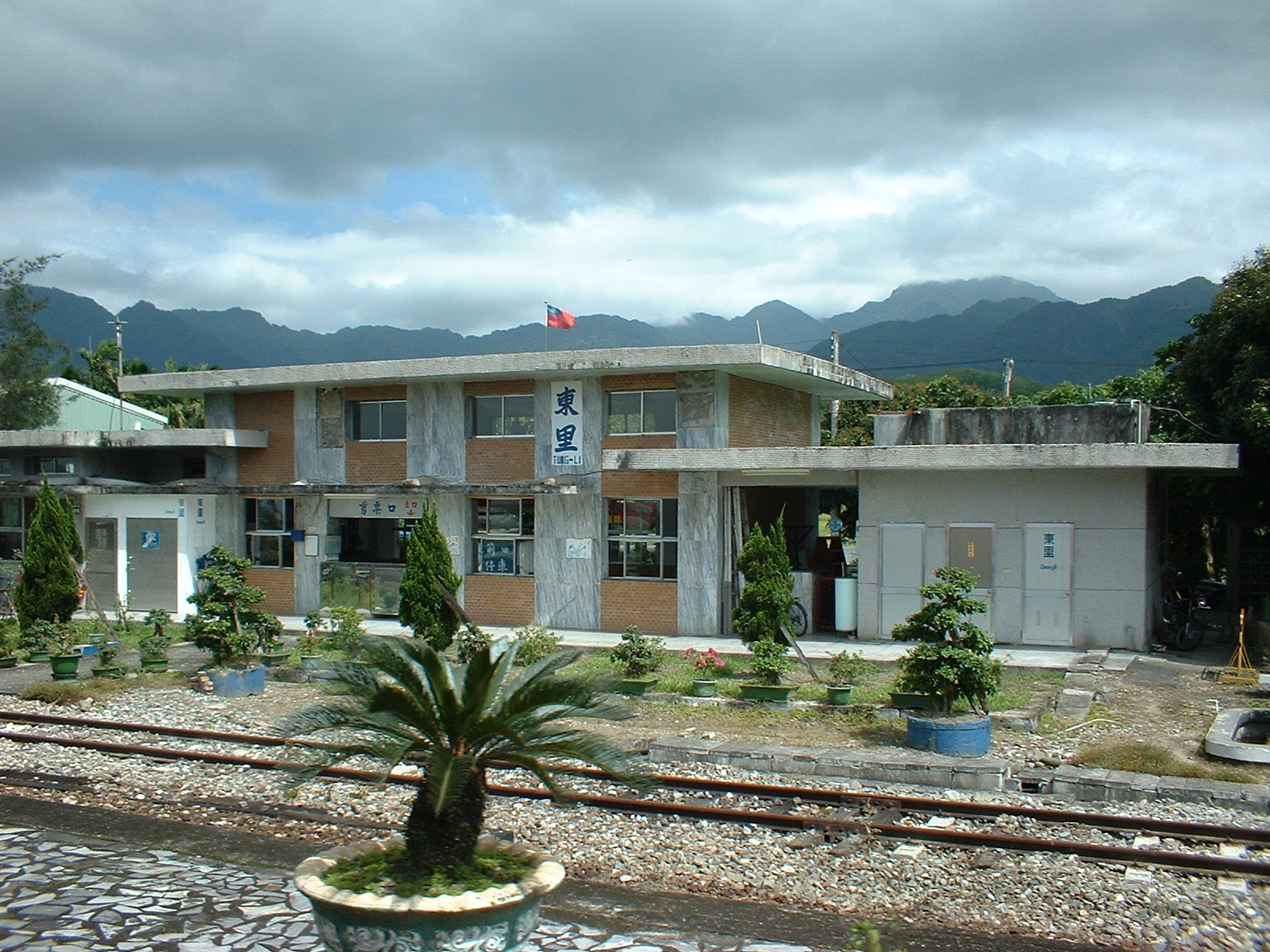 Taiwan Railway Administration Dongli Station